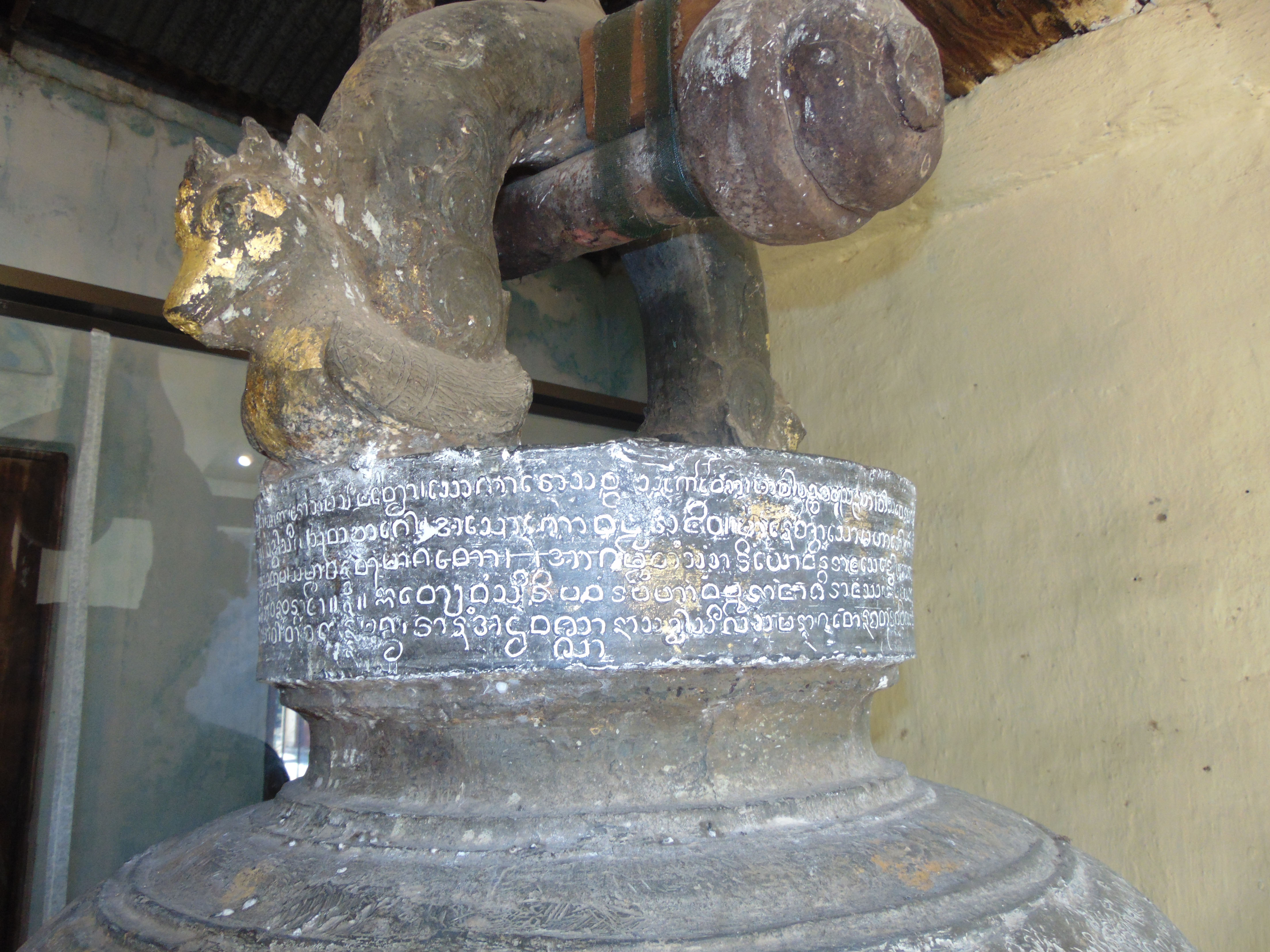 Photo of scripts on Shwezigon Bell